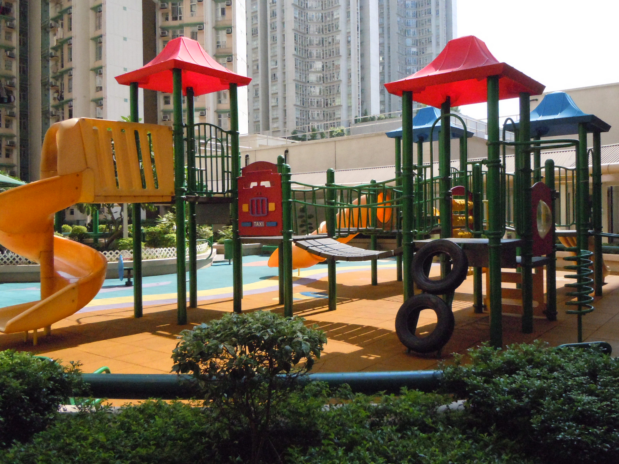 Lei On Court Playground in Lam Tin, Hong Kong.